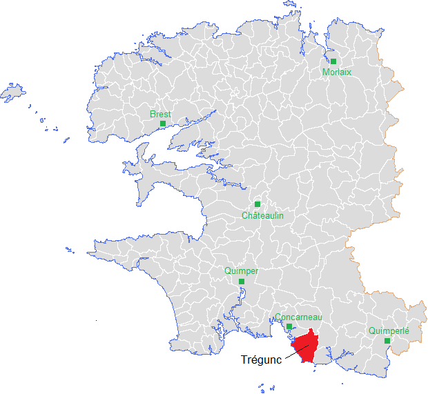 placement Trégunc in departement Finistère